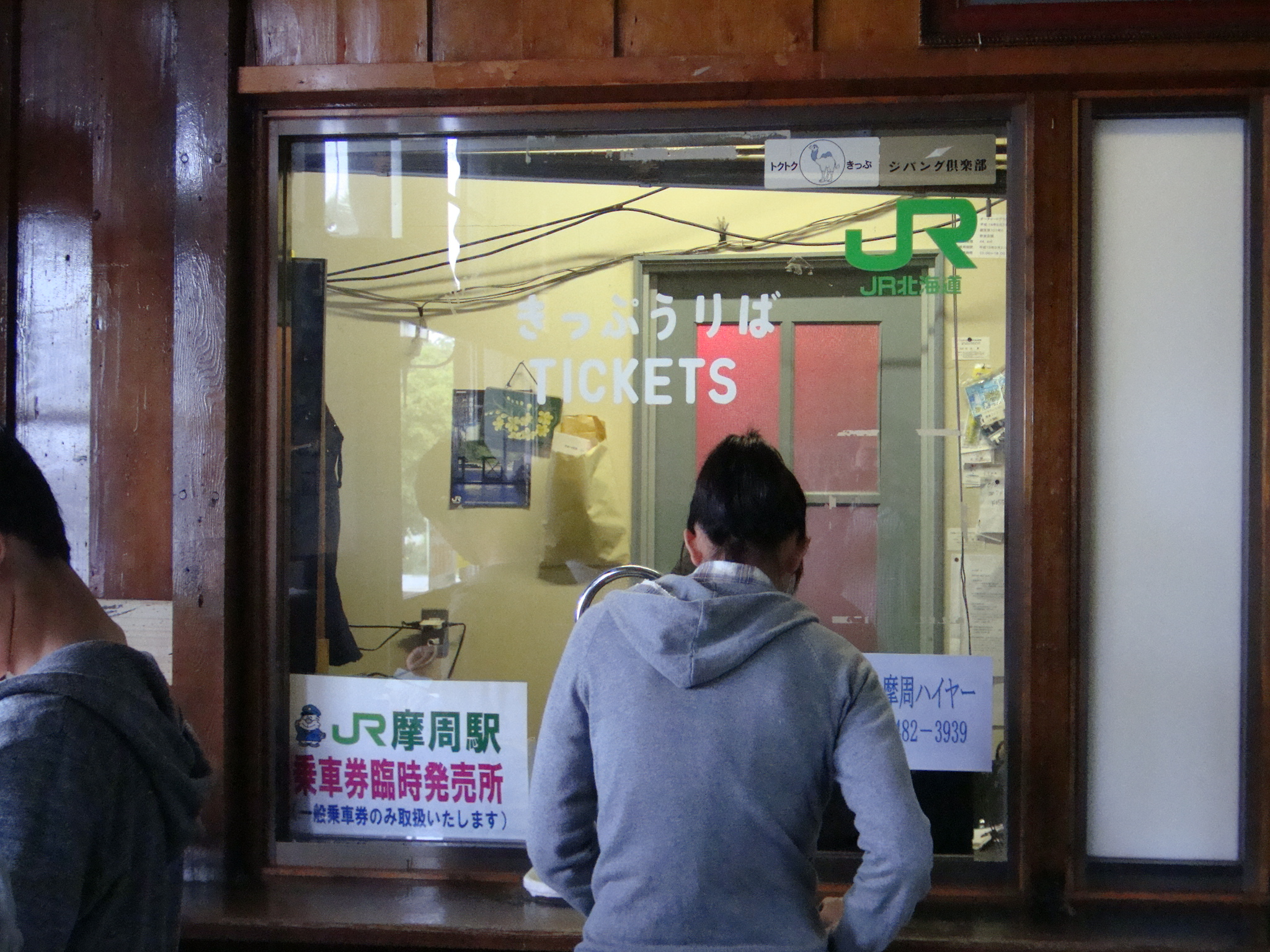 Kawayu-Onsen Station